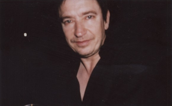 Alan Wilder, an English keyboardist. A former member (1982-1995) of "Depeche Mode".